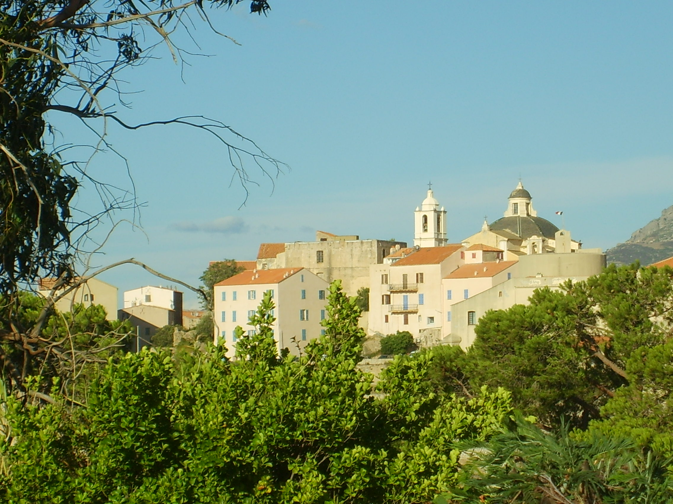 Calvi's citadel ( west )